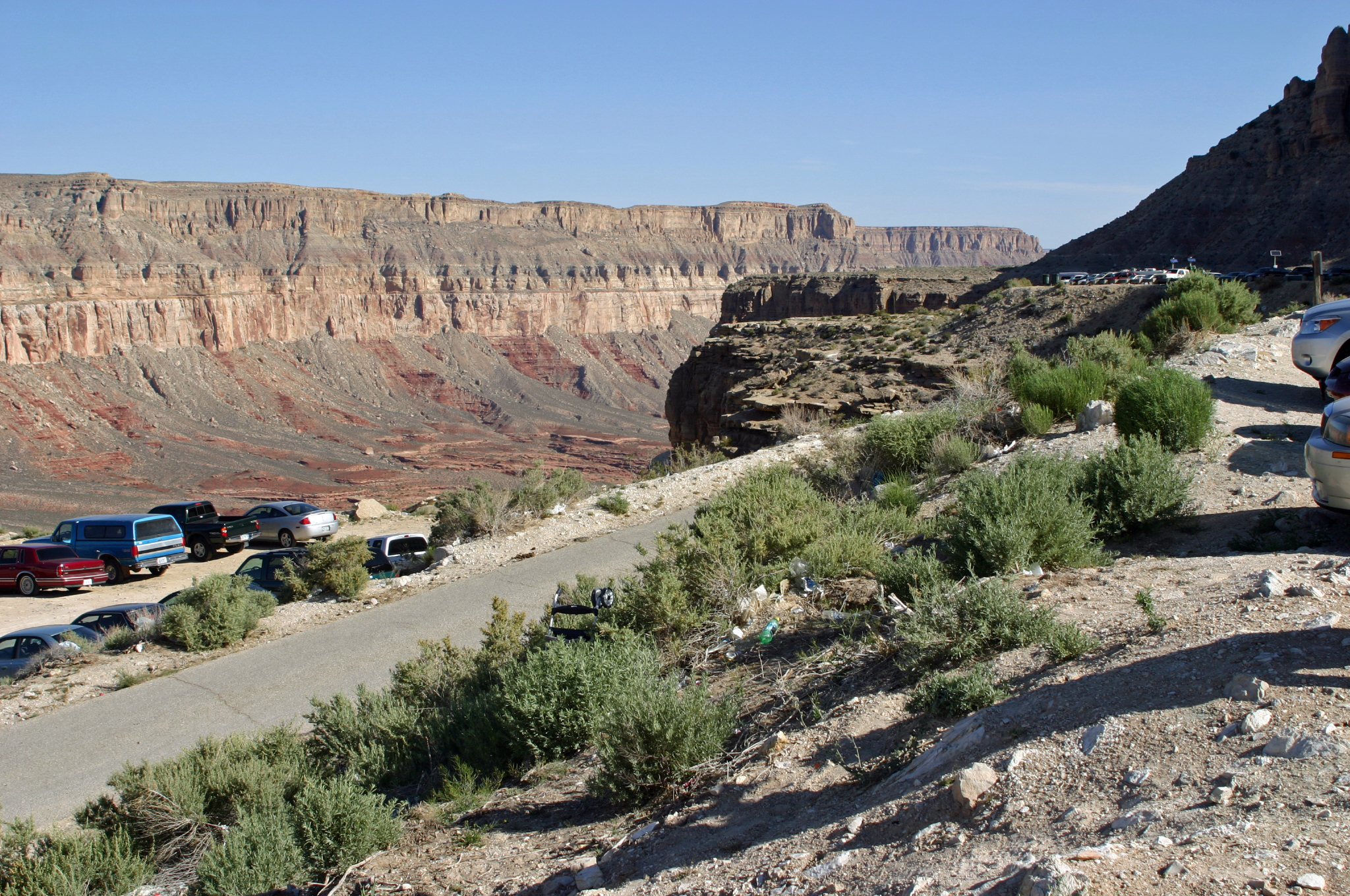 To get to Supai, you start at Hualapai Hilltop, which is nothing more than a very long parking lot running along a cliff, restrooms, a caretaker, and the trailhead.